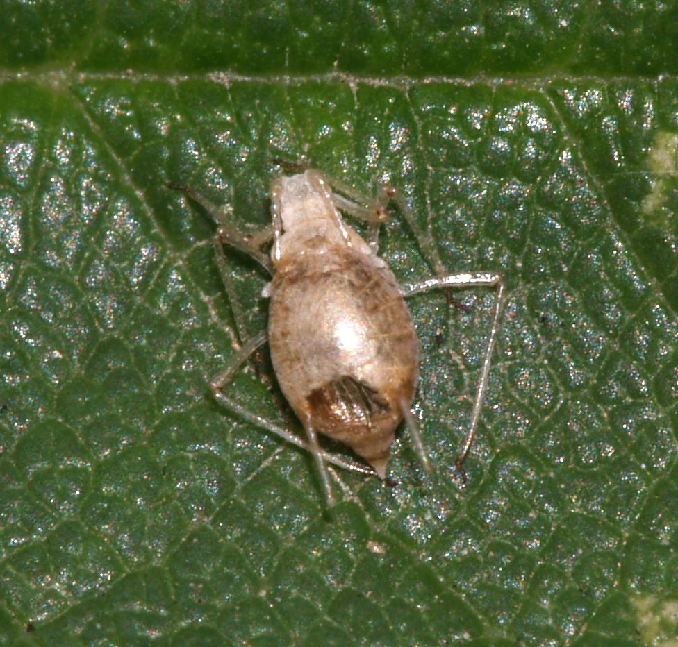 dead aphid, has housed an Aphidiinae (Braconidae), from Cologne, Germany.